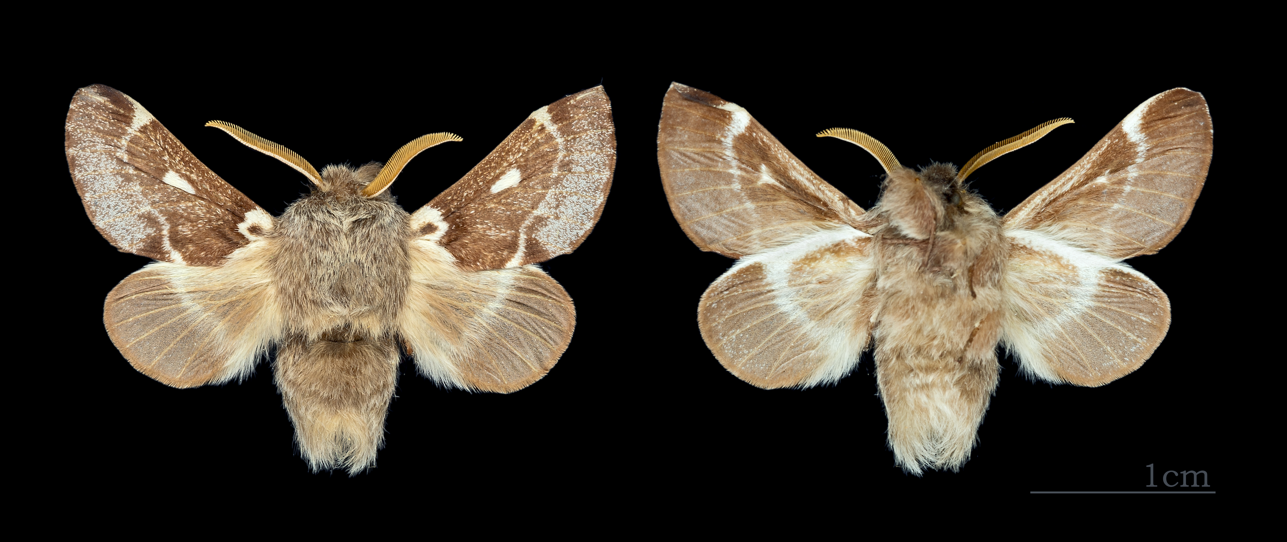 Small Eggar -Two views of same specimen.